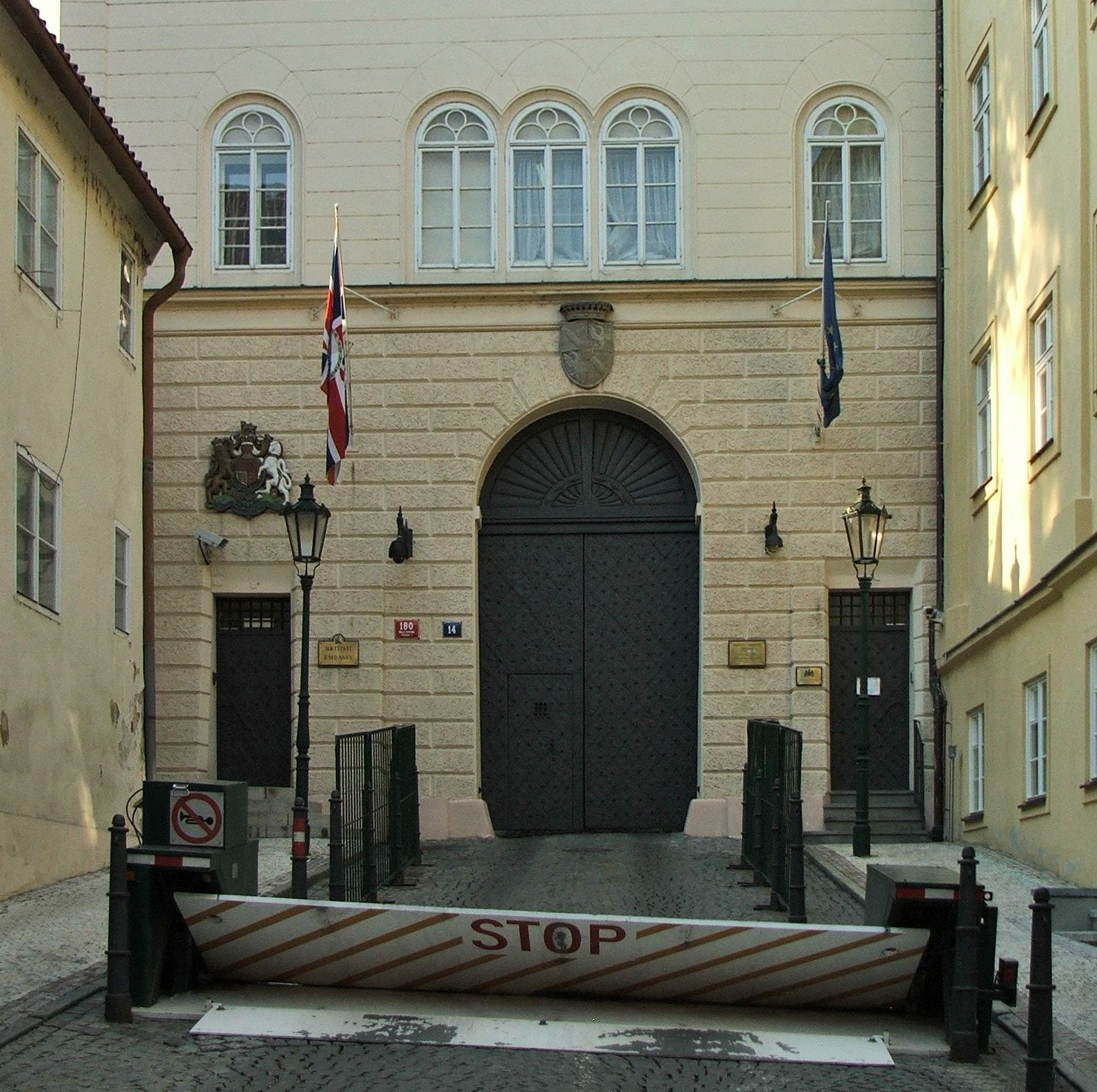 Thun Palace - seat of Embassy of the United Kingdom in Prague - Malá Strana, Czechia